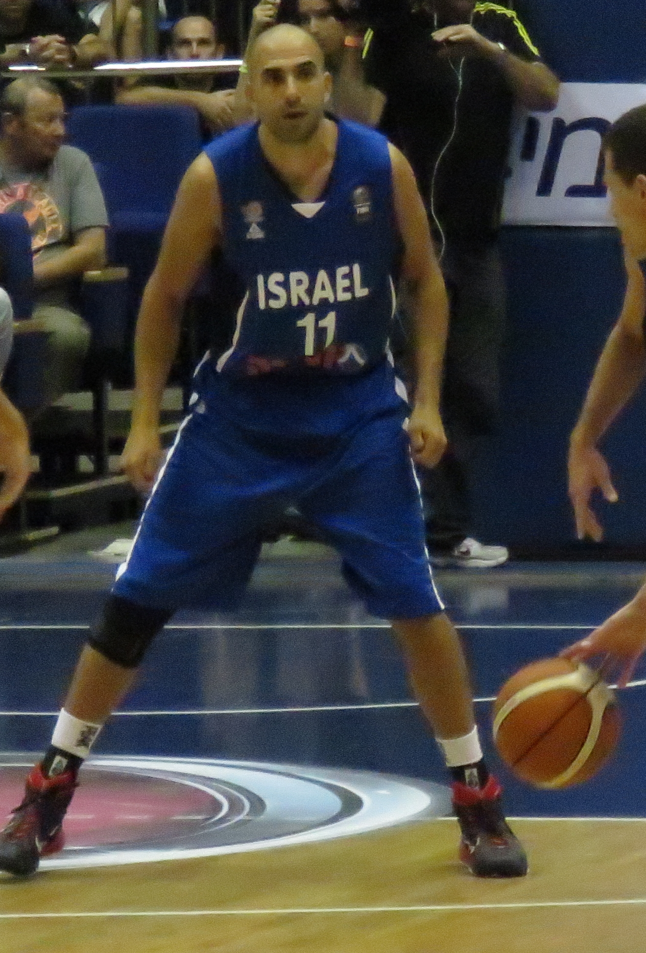 Israel vs. Serbia - August 23, 2015